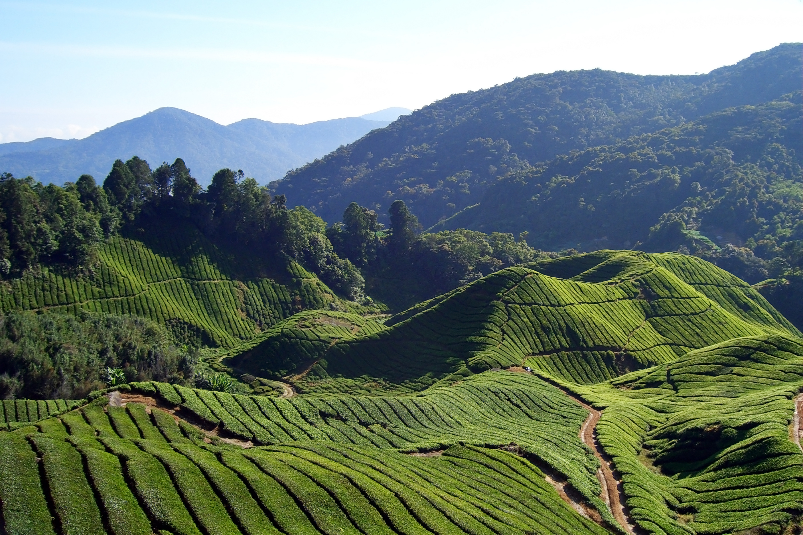 Tea fields